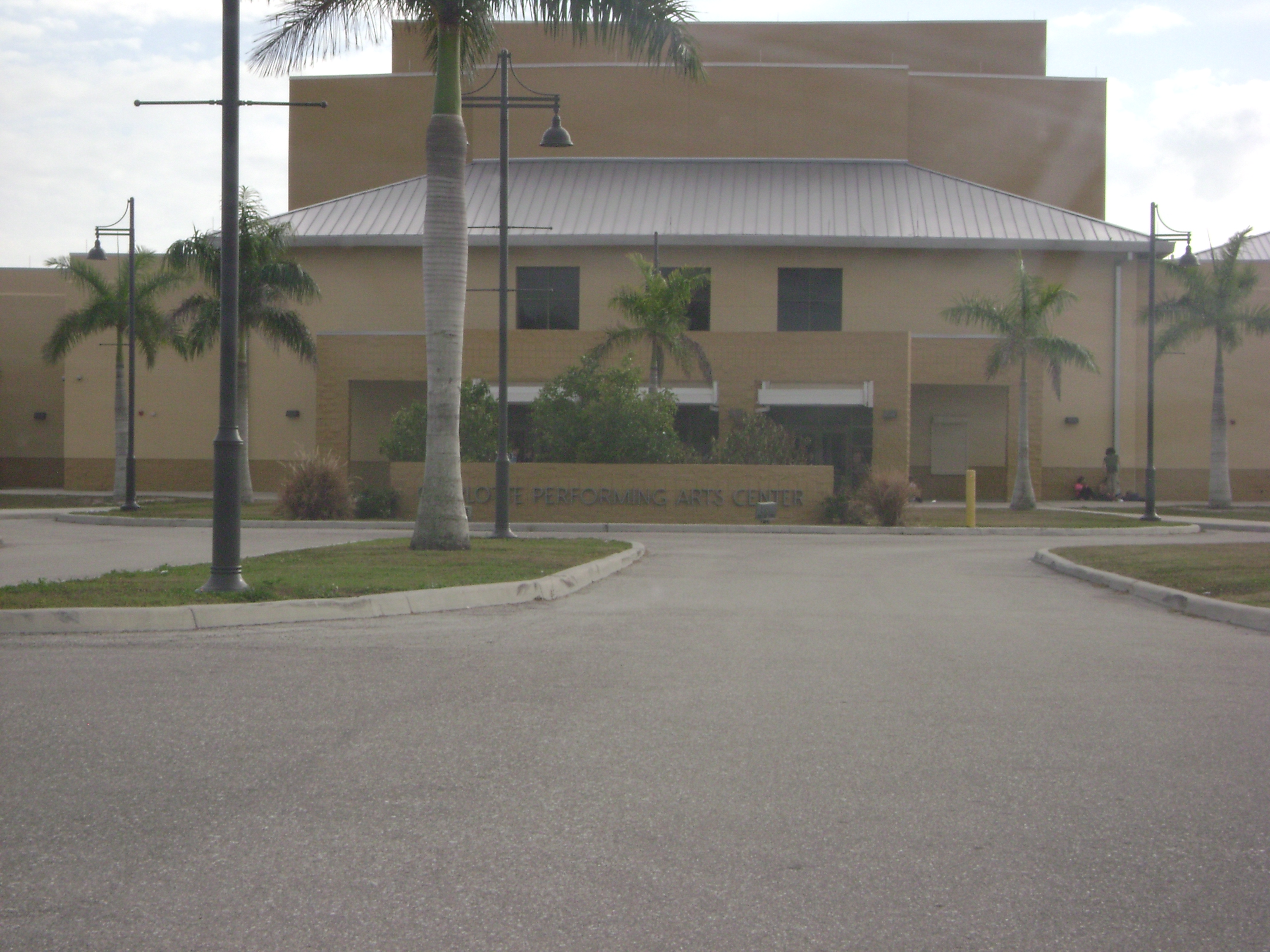 The Charlotte Performing Arts Center, part of the Charlotte High School campus in Punta Gorda, Florida.